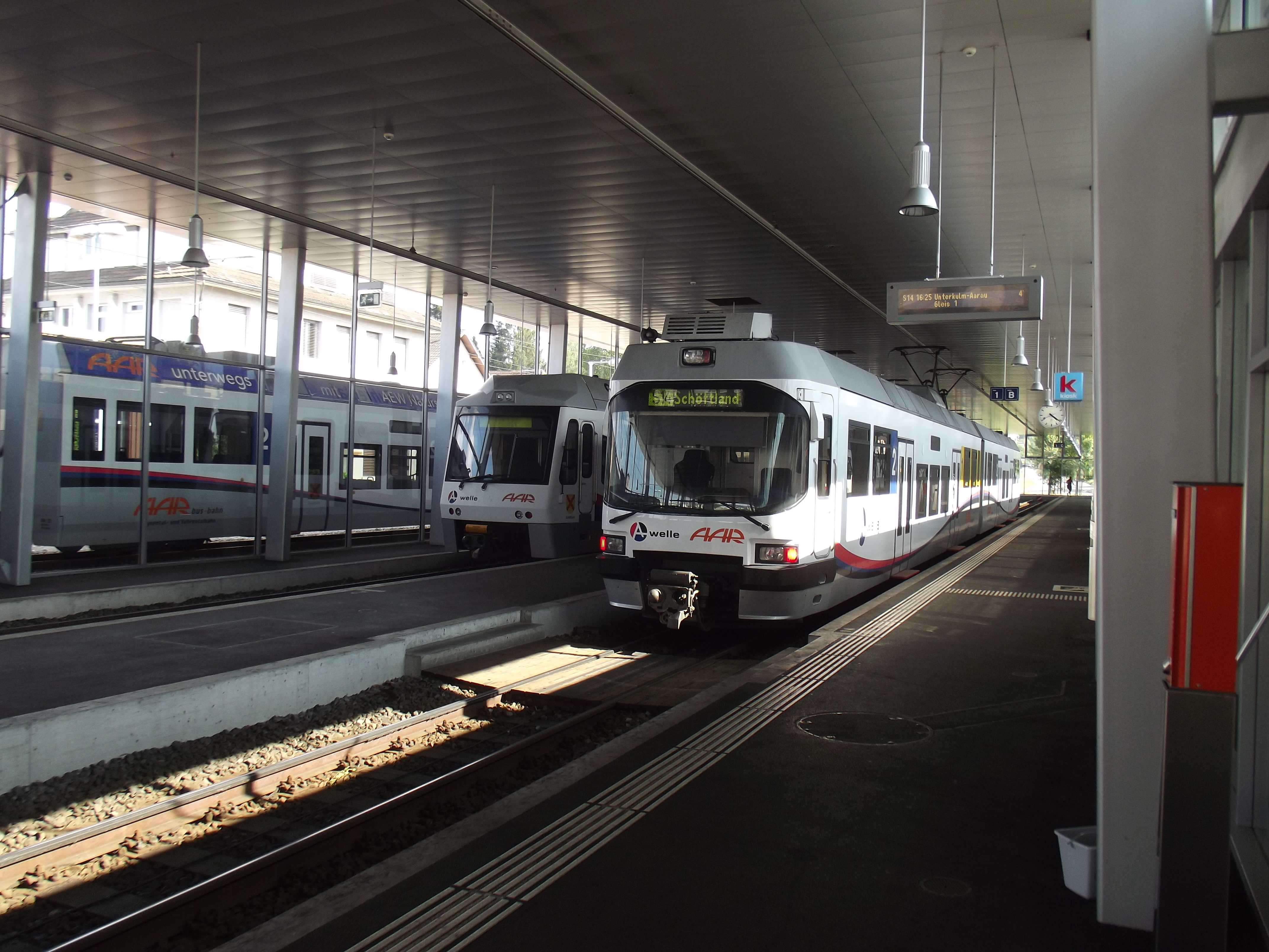 Endstation of the Wynentalbahn in Menziken. It is enclosed and also used as a trainshed.